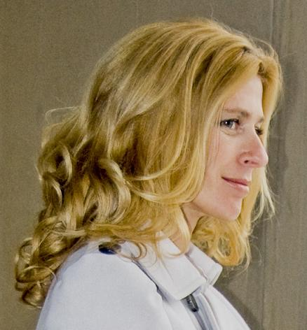 A picture